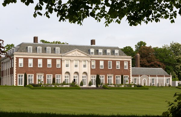 Winfield House in London. A historical house and the residence of the U.S. ambassador to the U.K.